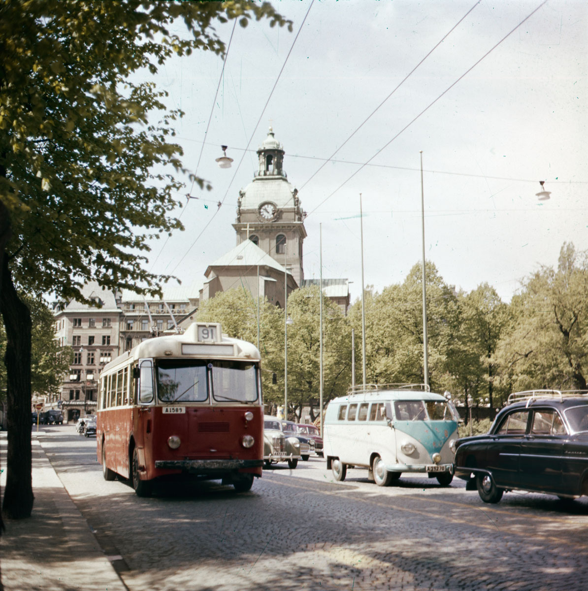 Trolleybus in Stockholm in 1956. Photo Nr: 2031-T123.